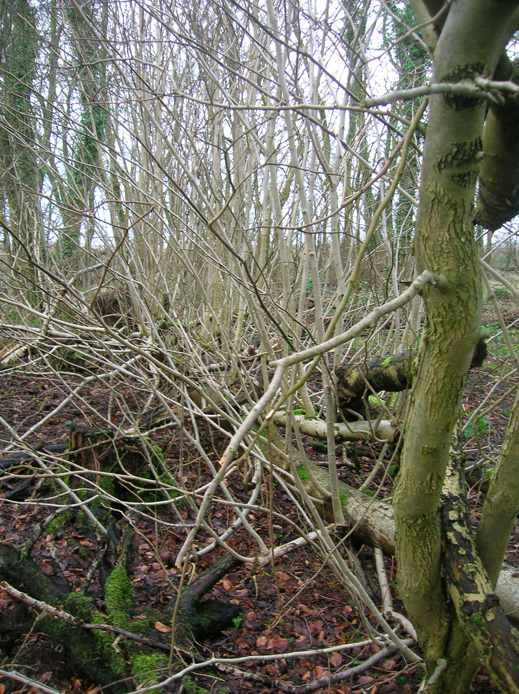 Treelets on a fallen Ash Tree in Lawthorn woods, North Ayrshire, Scotland.